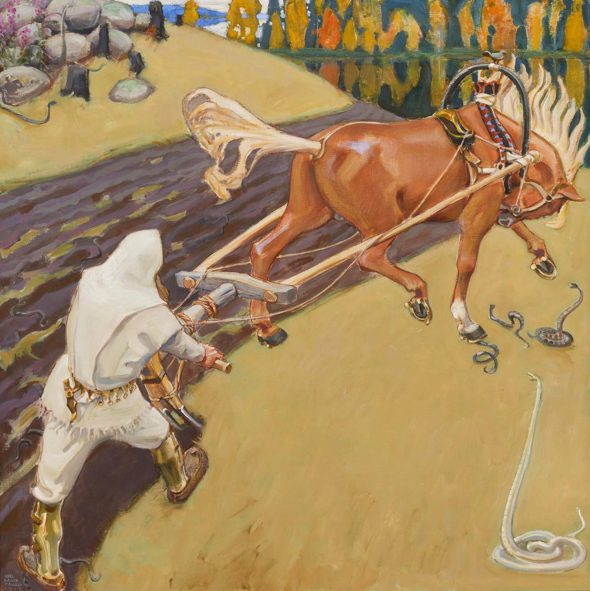 There is also a 1928 fresco version at the National Museum of Finland.